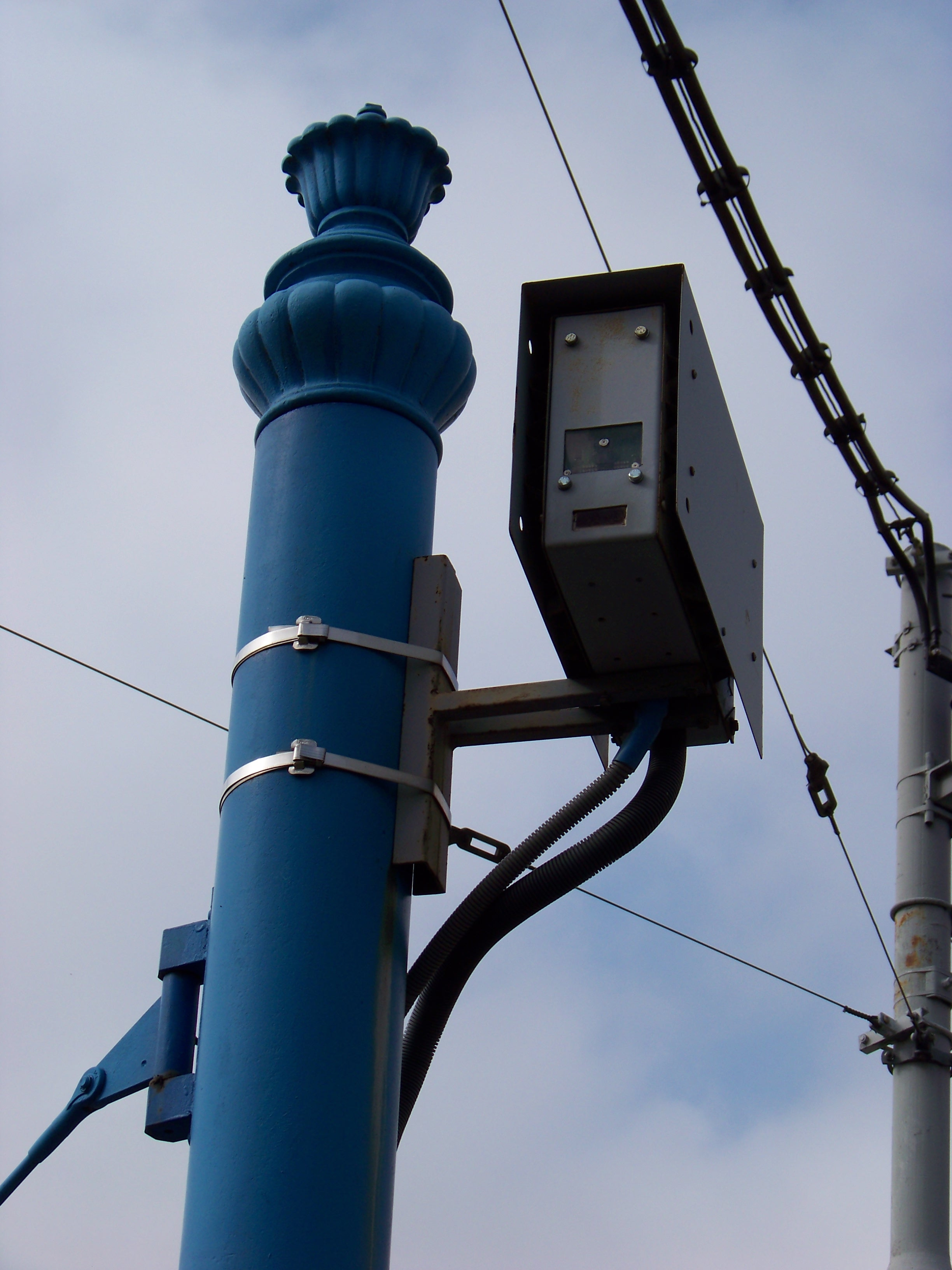 Prague-Žižkov, the Czech Republic. Žižkov tram depot, a tram traffic detection (localisation) infra-transmitter of DORIS system. - OpenStreetMap(Info)